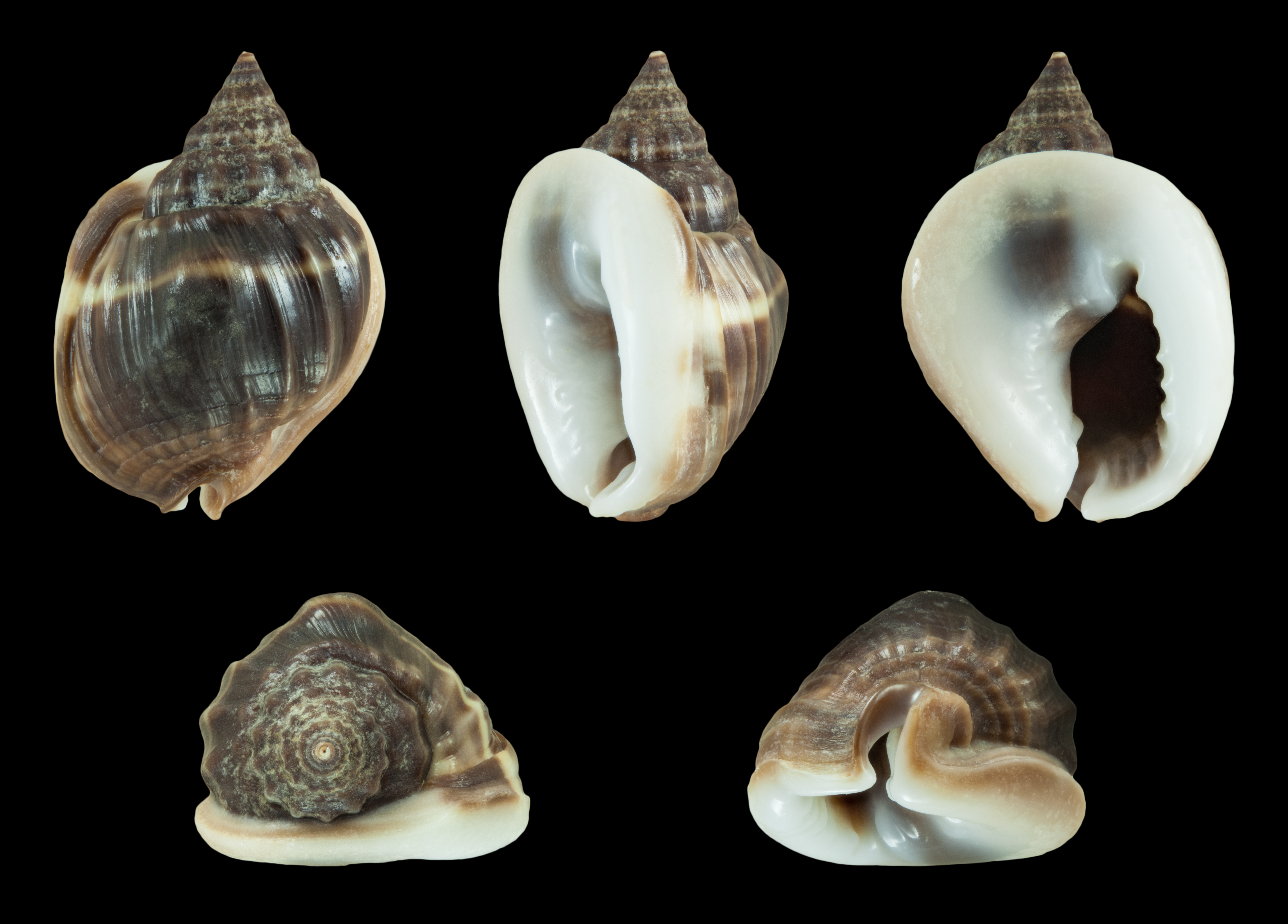 Nassarius pullus Habe & Kosuge, 1966, Black Nassa; length 1.5 cm; Originating from Leyte, Philippines; Shell of own collection, therefore not geocoded.